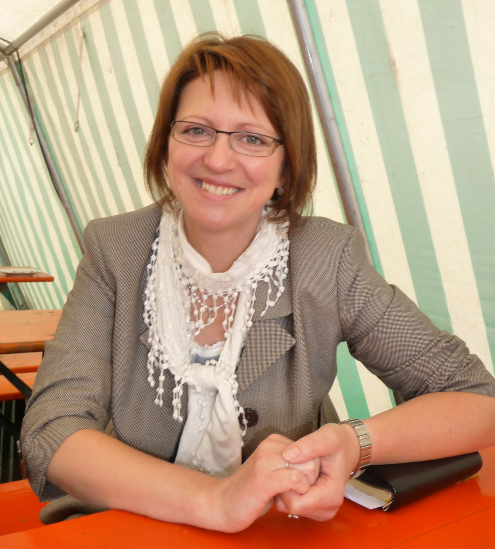 Gisela Hofmann